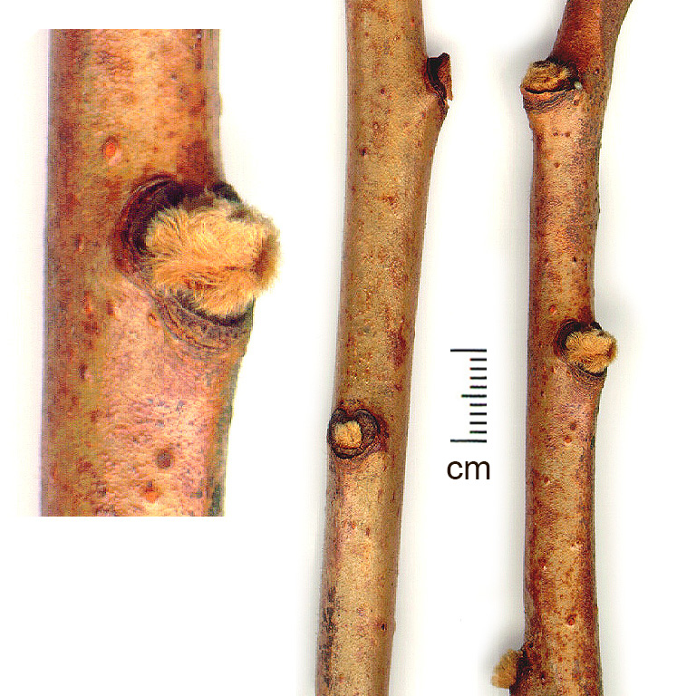 Rhus typhina buds